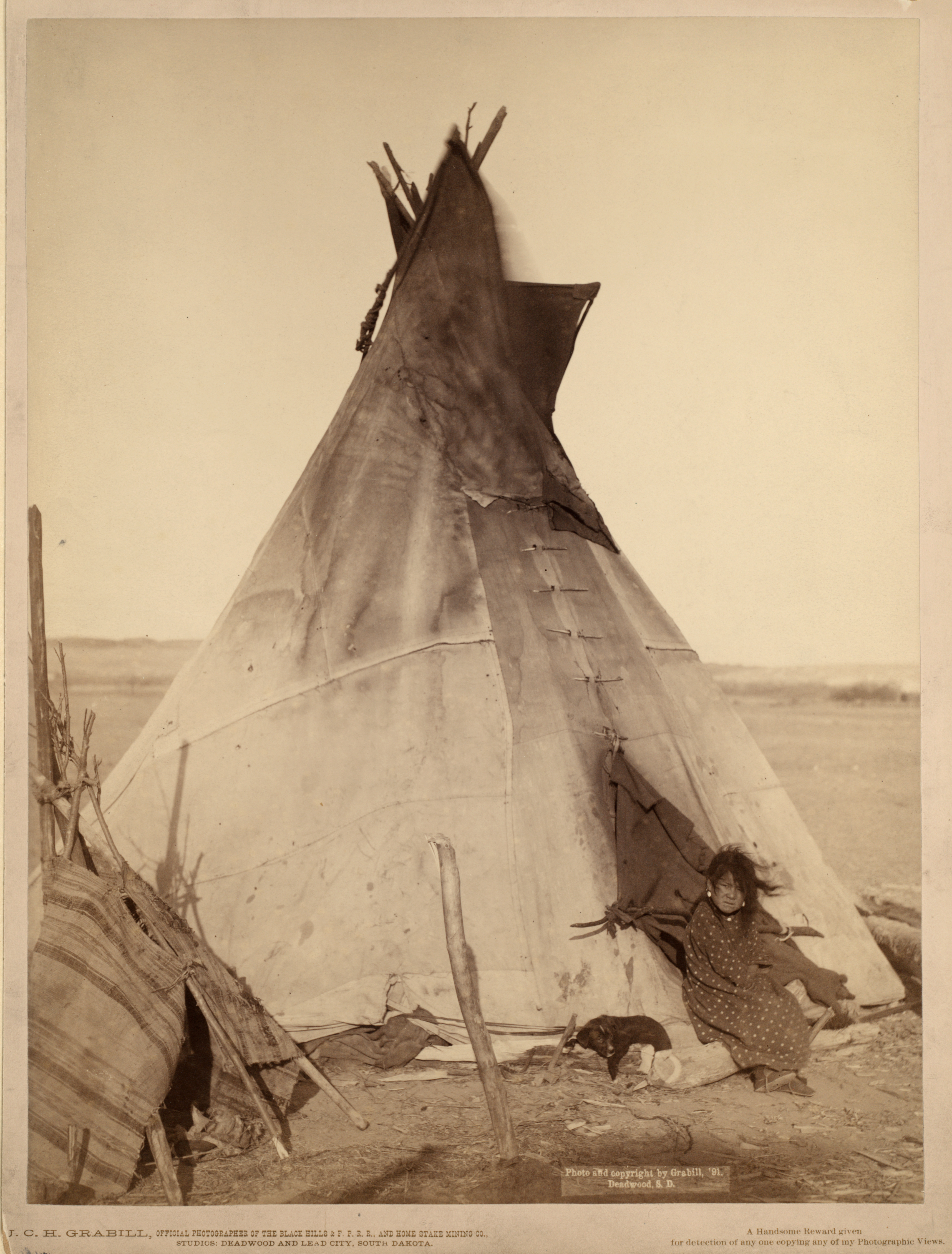 A young Oglala girl sitting in front of a tipi, with a puppy beside her, probably on or near Pine Ridge Reservation.